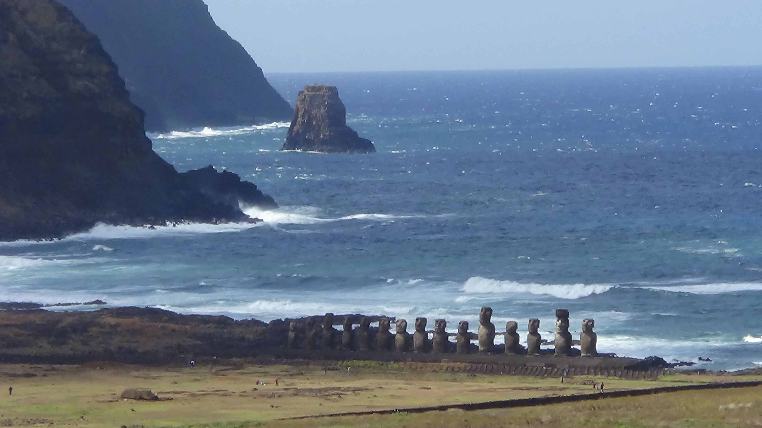 Easter Island This is a photo of a national monument in Chile: 628